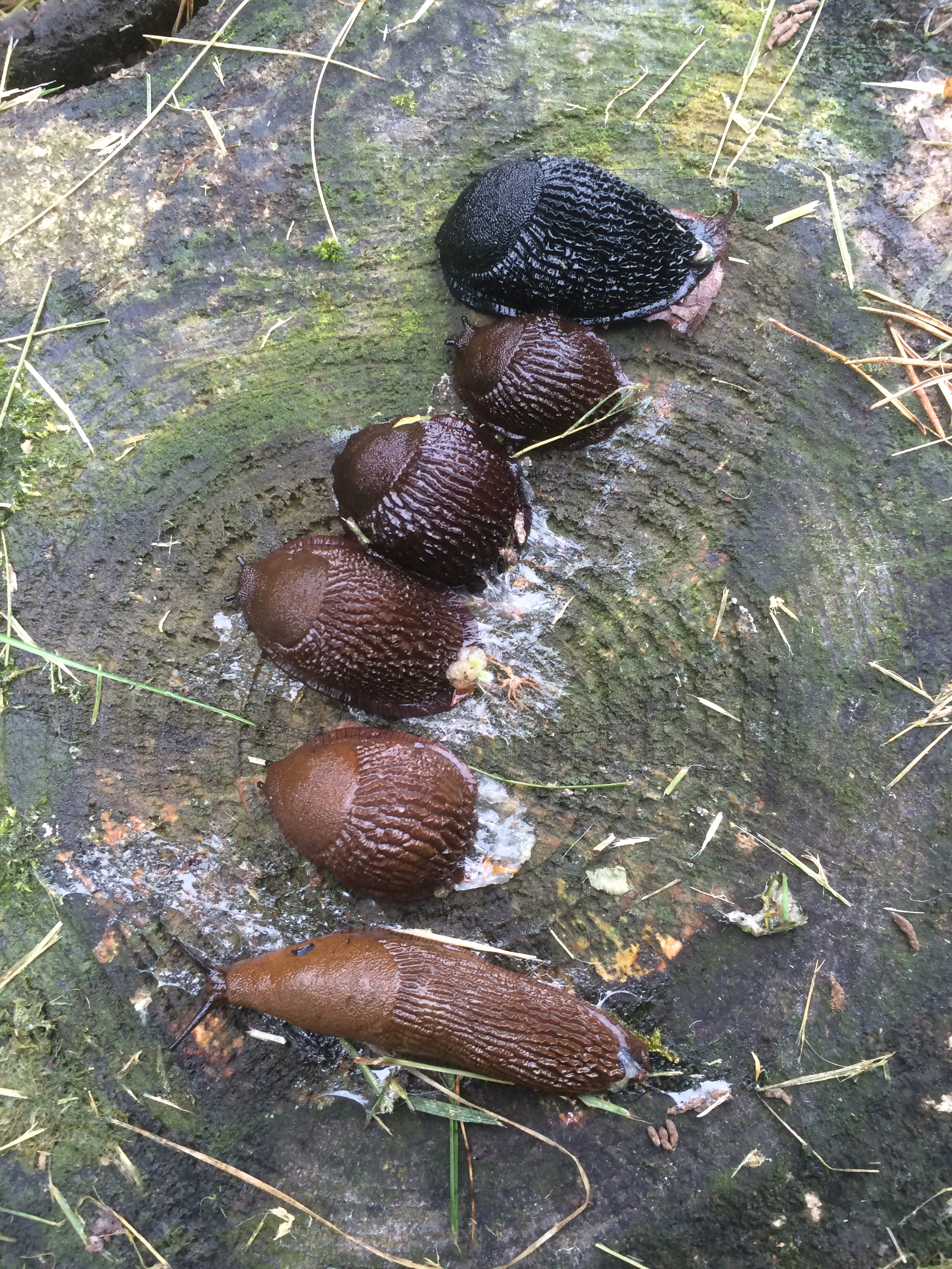 Hybrids between black slug (topp) and Spanish slug (bottom). Several back-crossings are represented, showing the F1 generation is fertile.